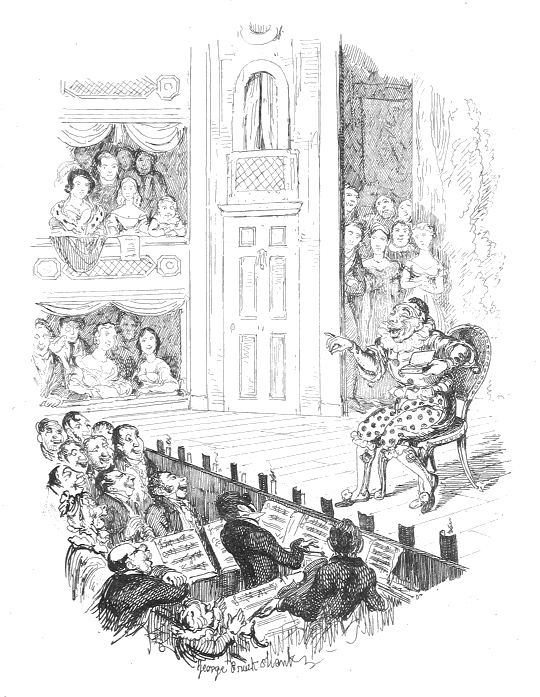 Joseph Grimaldi at his final appearance in 1828, too weak to stand and so remaining sitting throughout the performance